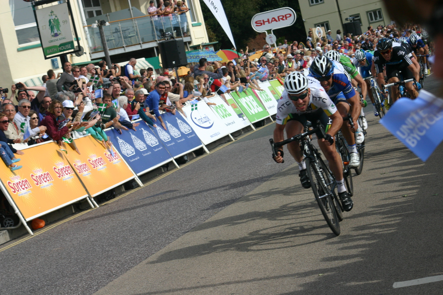 Mark Cavendish (Hooray)